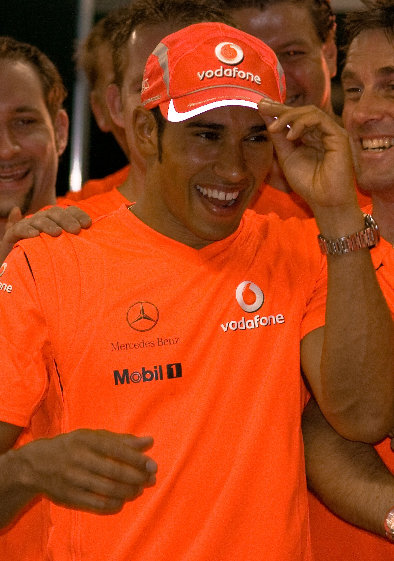 Lewis Hamilton / F1 / World Champion 2008 Brazilian GP